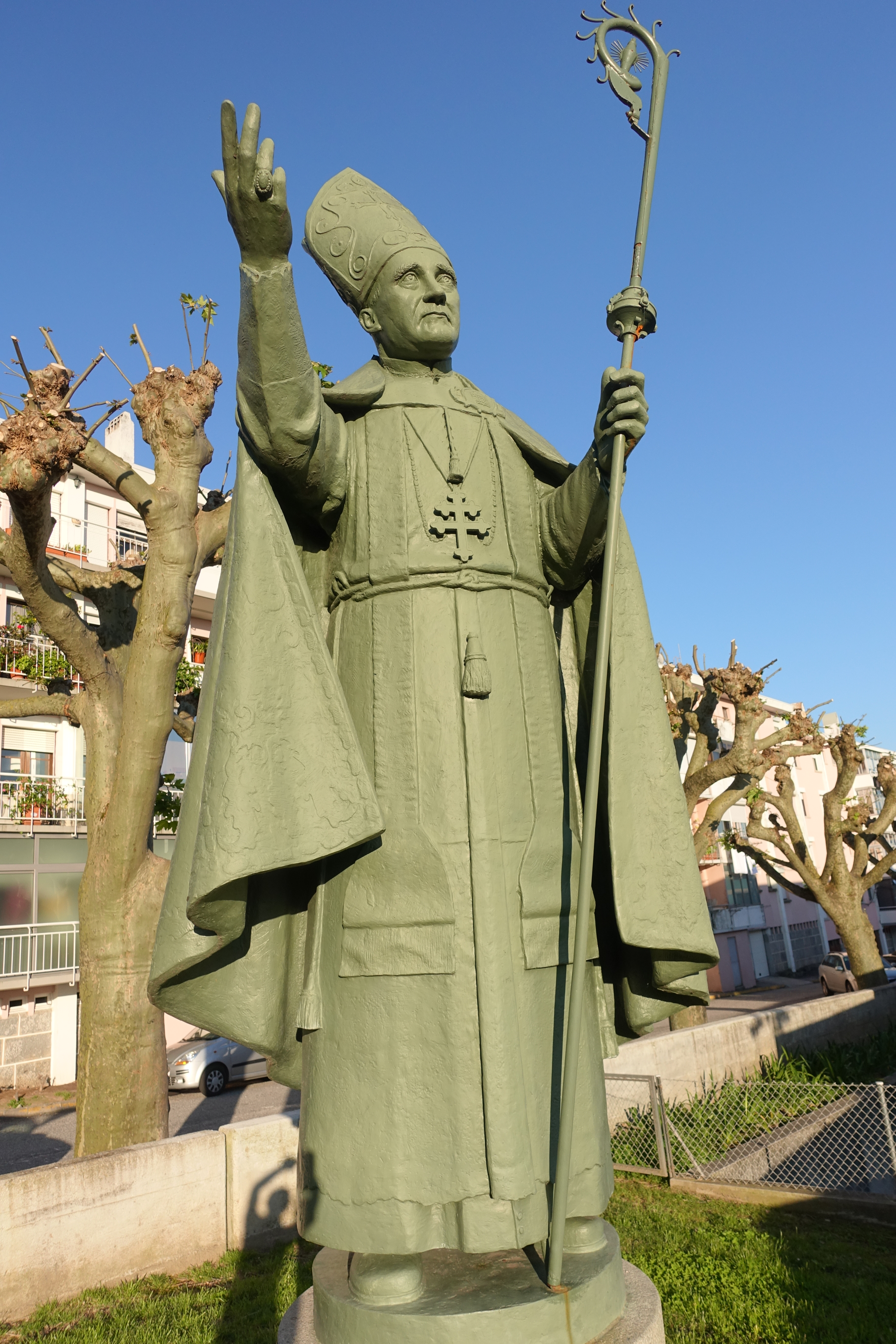 Statue of Dom Francisco Maria da Silva in São Lázaro, Braga, Portugal.